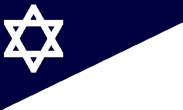 This is the flag that was flown by the Branch Davidians over the Mount Carmel Center during the 1993 Waco Siege. This image was made from a sketch drawn from news footage of the siege that was shown during City in Fear: Waco on MSNBC in November 2006. The star of David is from Image:Star of David.svg.